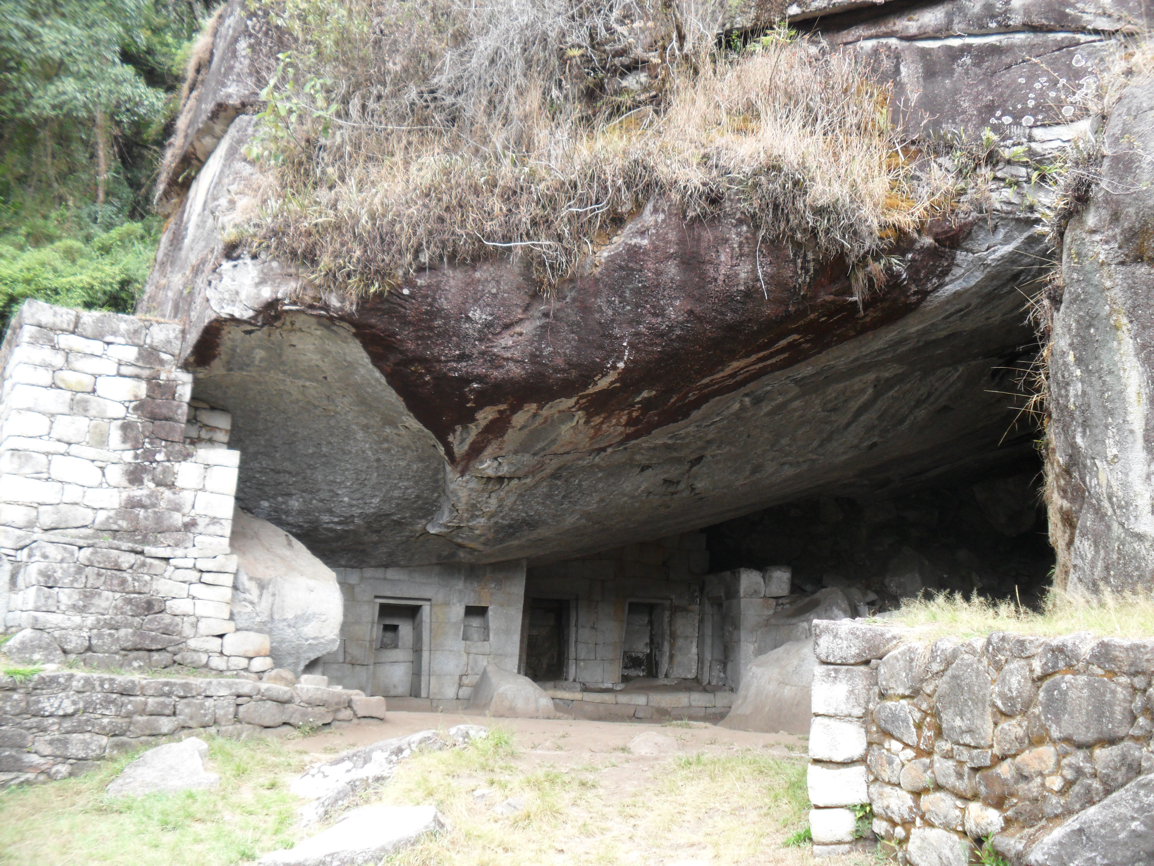 Huayna Picchu's Moon Temple in Machu Picchu